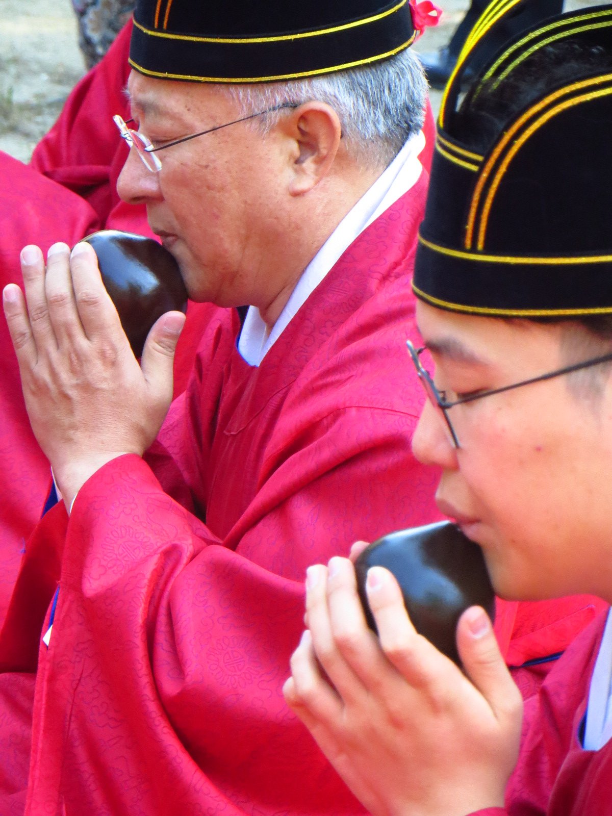 Source: Joseon Dynasty Court Instruments on the blog Ethnoscopes: Tracks of an Anthropologist Picture taken during the Seokjeon Daeje Confucian ceremony at Munmyo Shrine, Sunkyunkwan seowon, Seoul